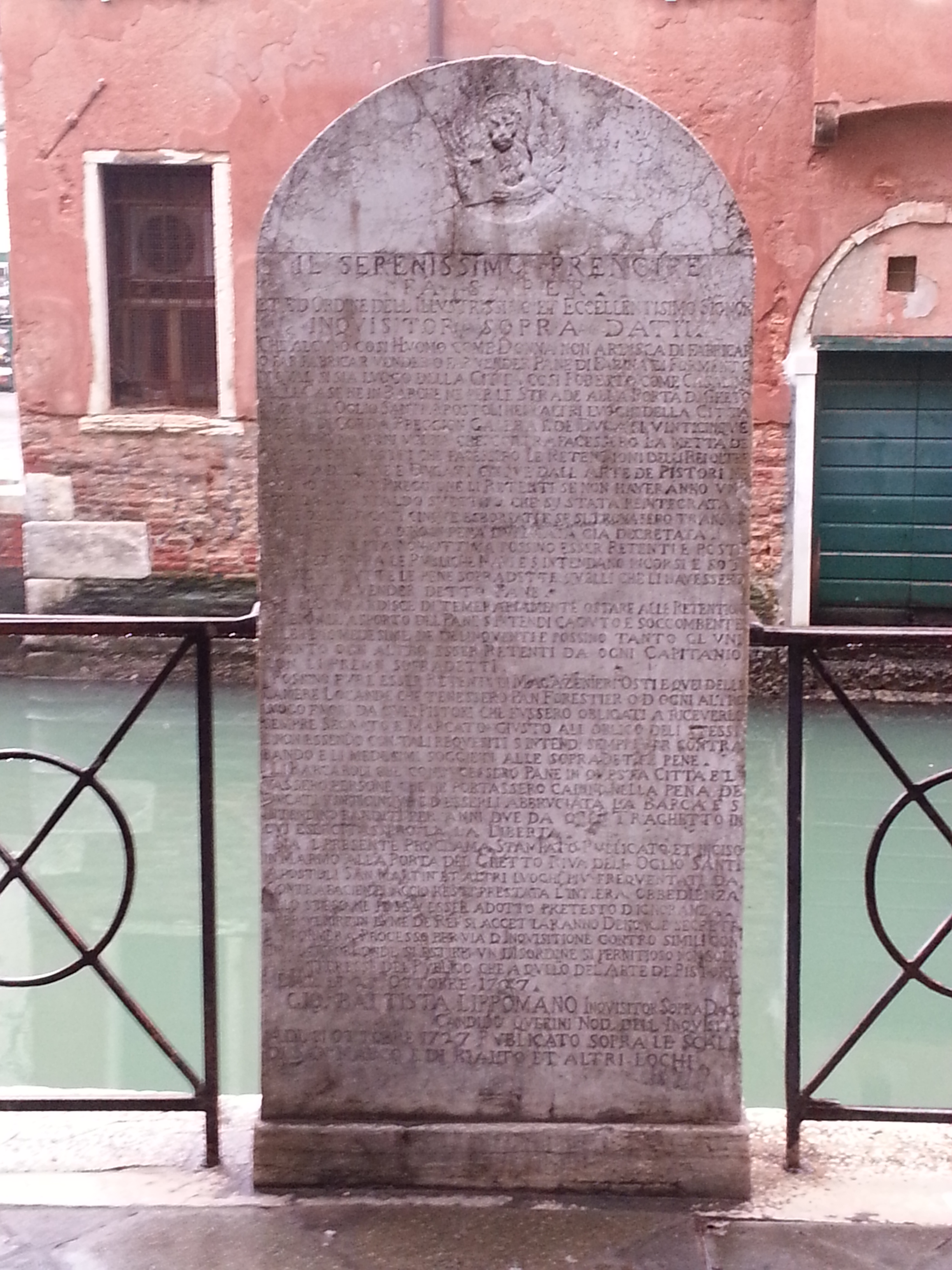 Venetian inscription of the 18th century not far away from the ponte dell'olio